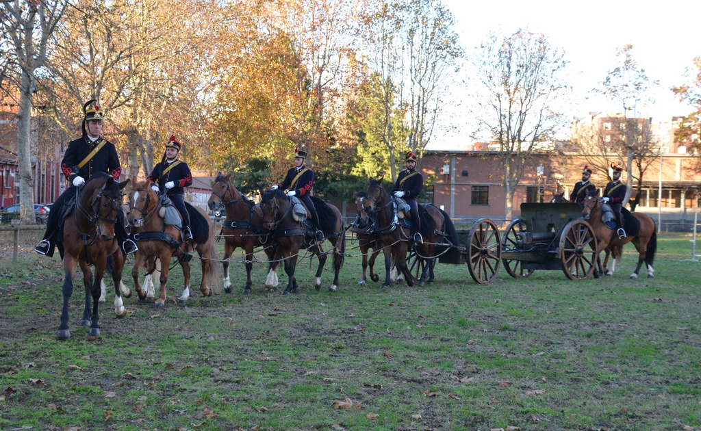 Italian Army - Field Artillery Regiment "a Cavallo" Historic Section horse drawn gun